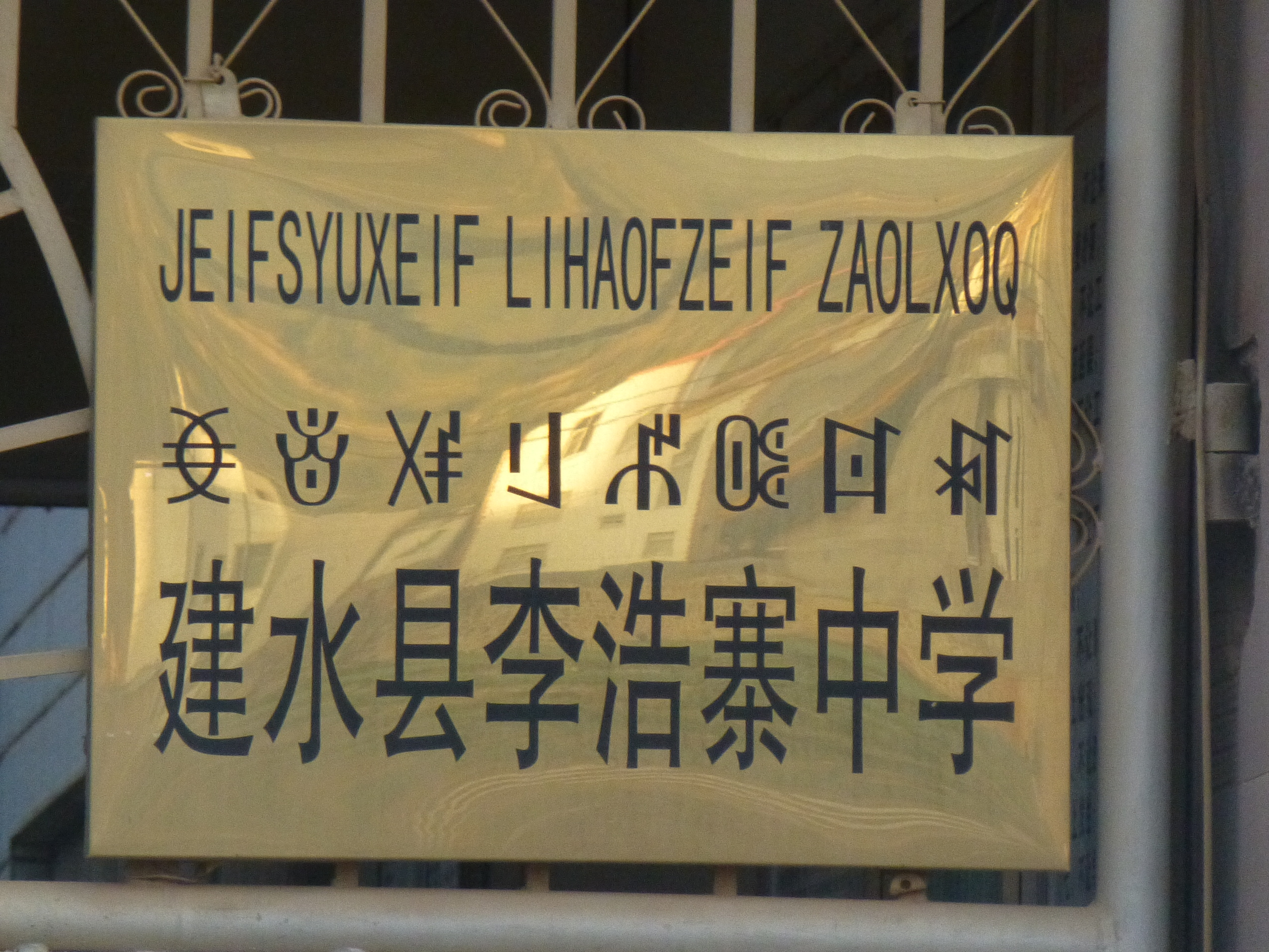 Lihaozhai High School. (Lihaozhai Township, Jianshui County). The sign above the door is trilingual, in Chinese, Yi (syllabic script) and Hani (alphabetic script)